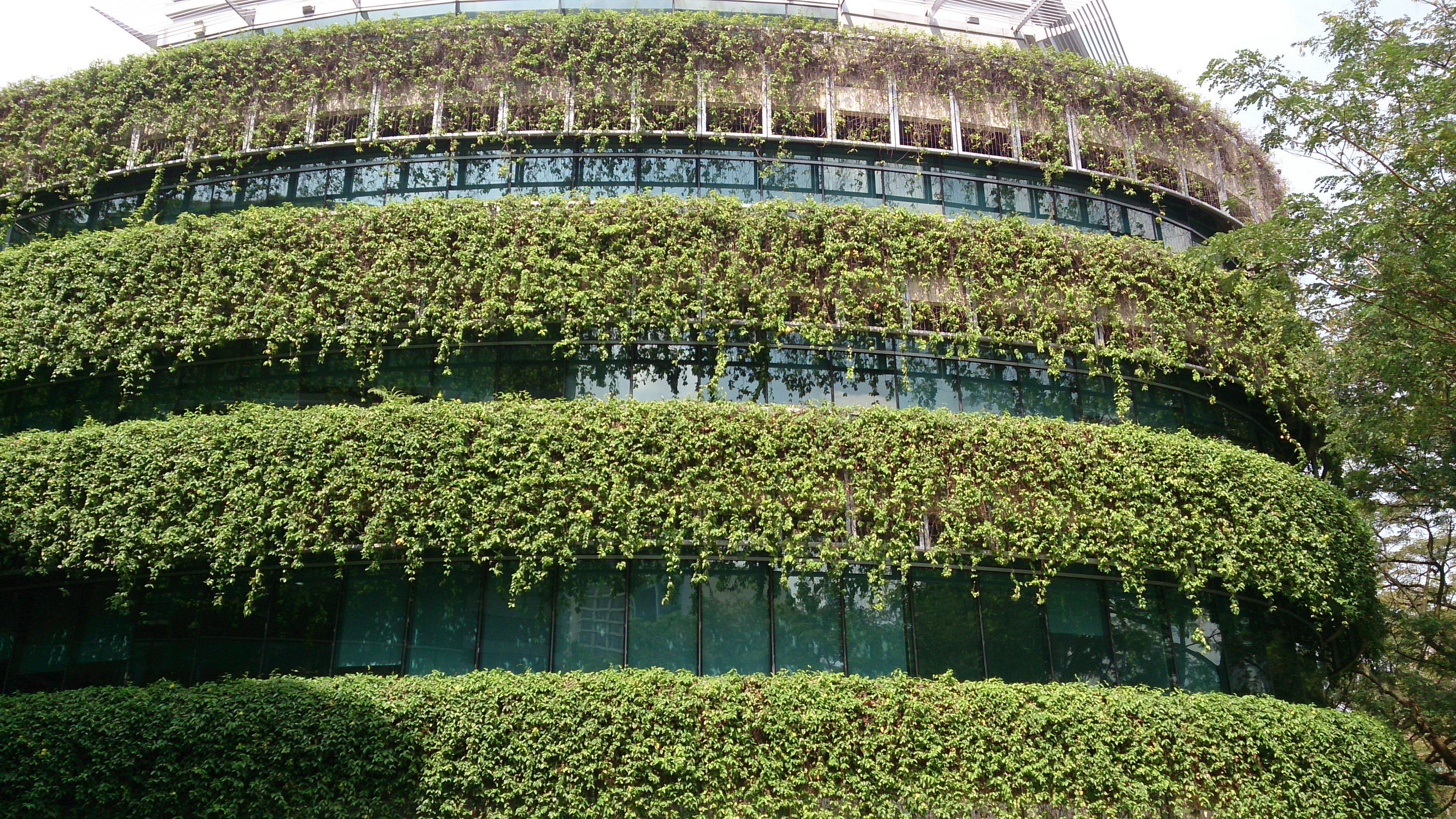 A green wall of the Li Ka Shing Library, Singapore Management University.